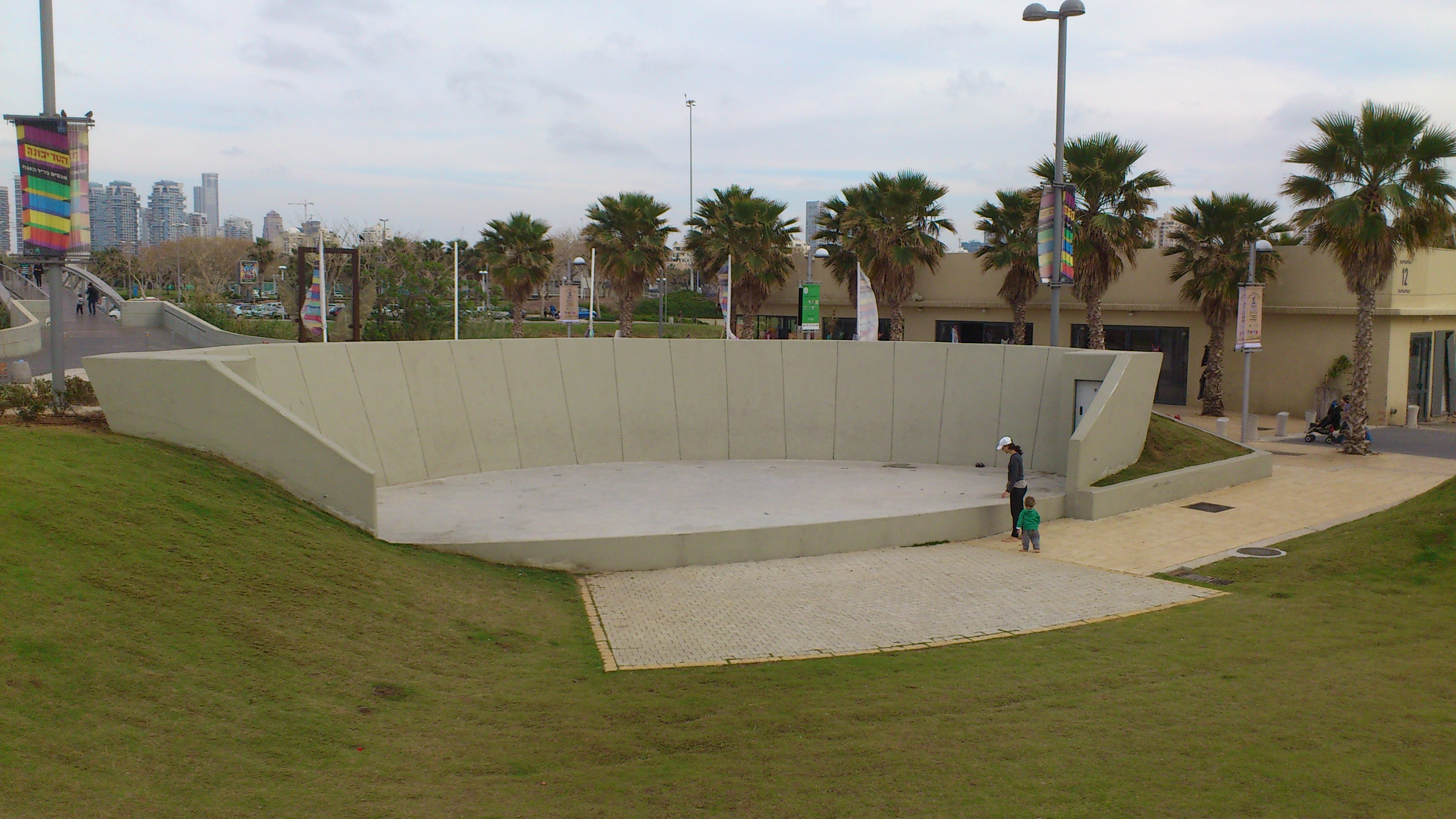 Category:The East Market